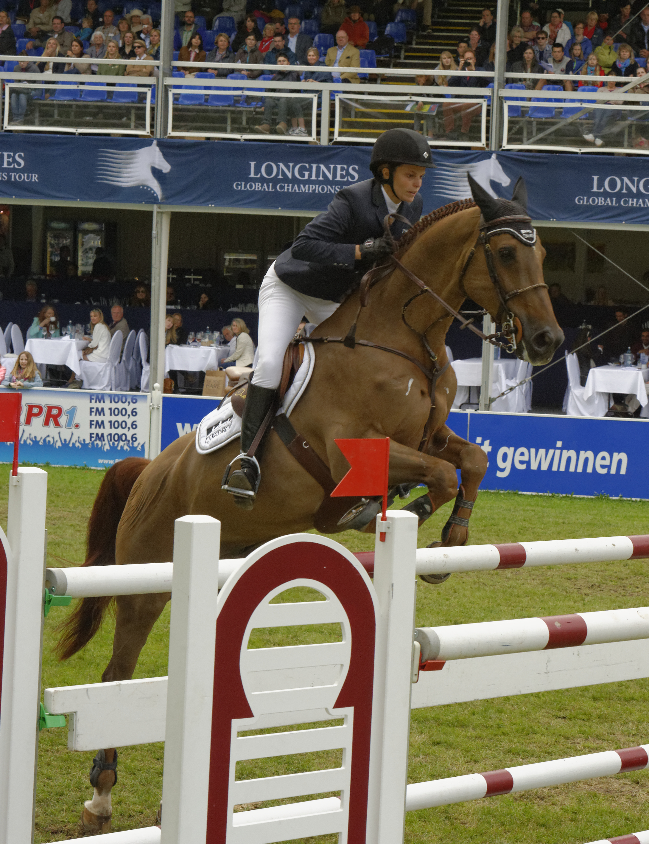 Internationales Pfingstturnier Wiesbaden 2013: Athina Onassis de Miranda mit Babouche The making of this document was supported by the Community-Budget of Wikimedia Germany.